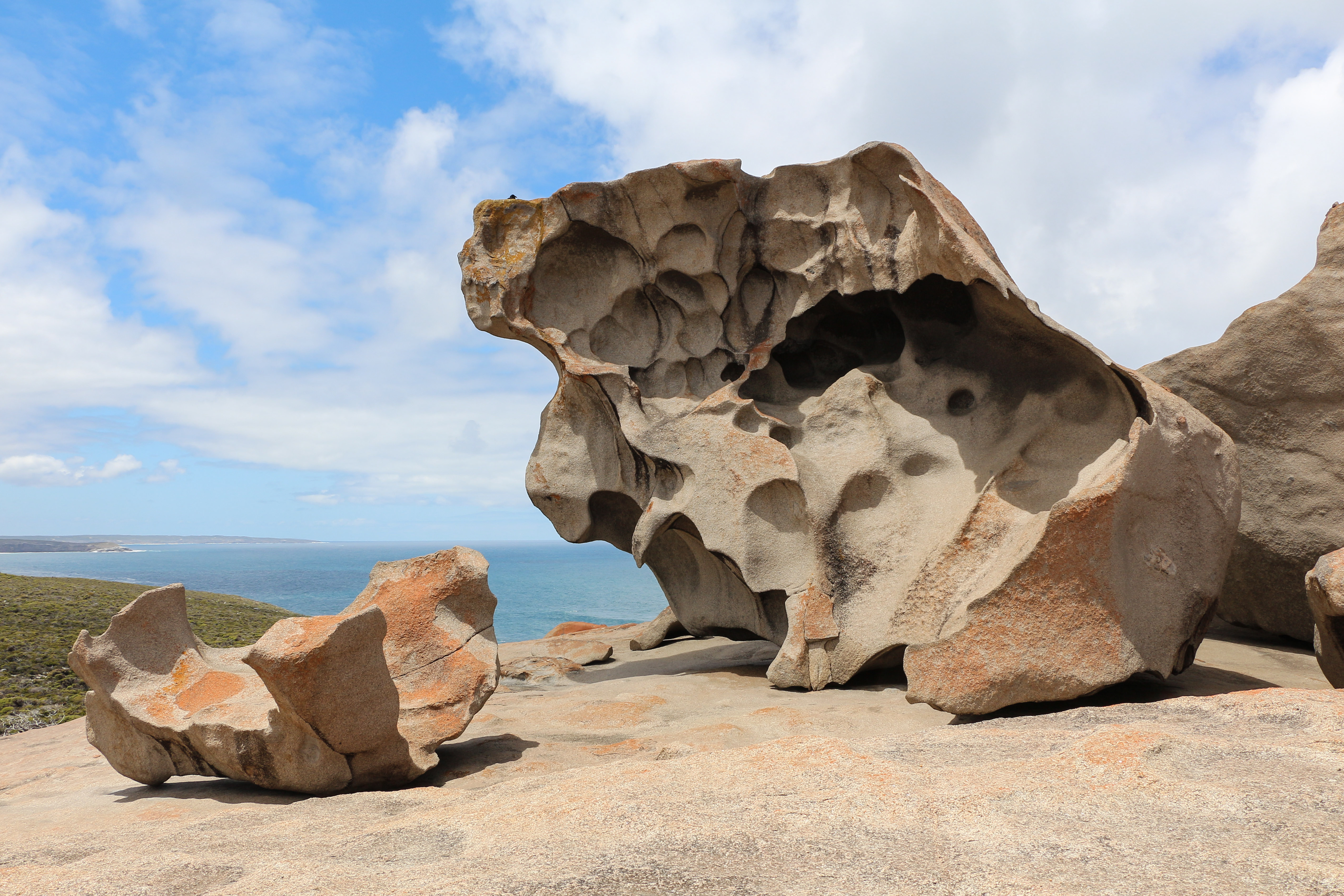 Remarkable Rocks in the Flinders Chase National Park, Kangaroo Island, Australia